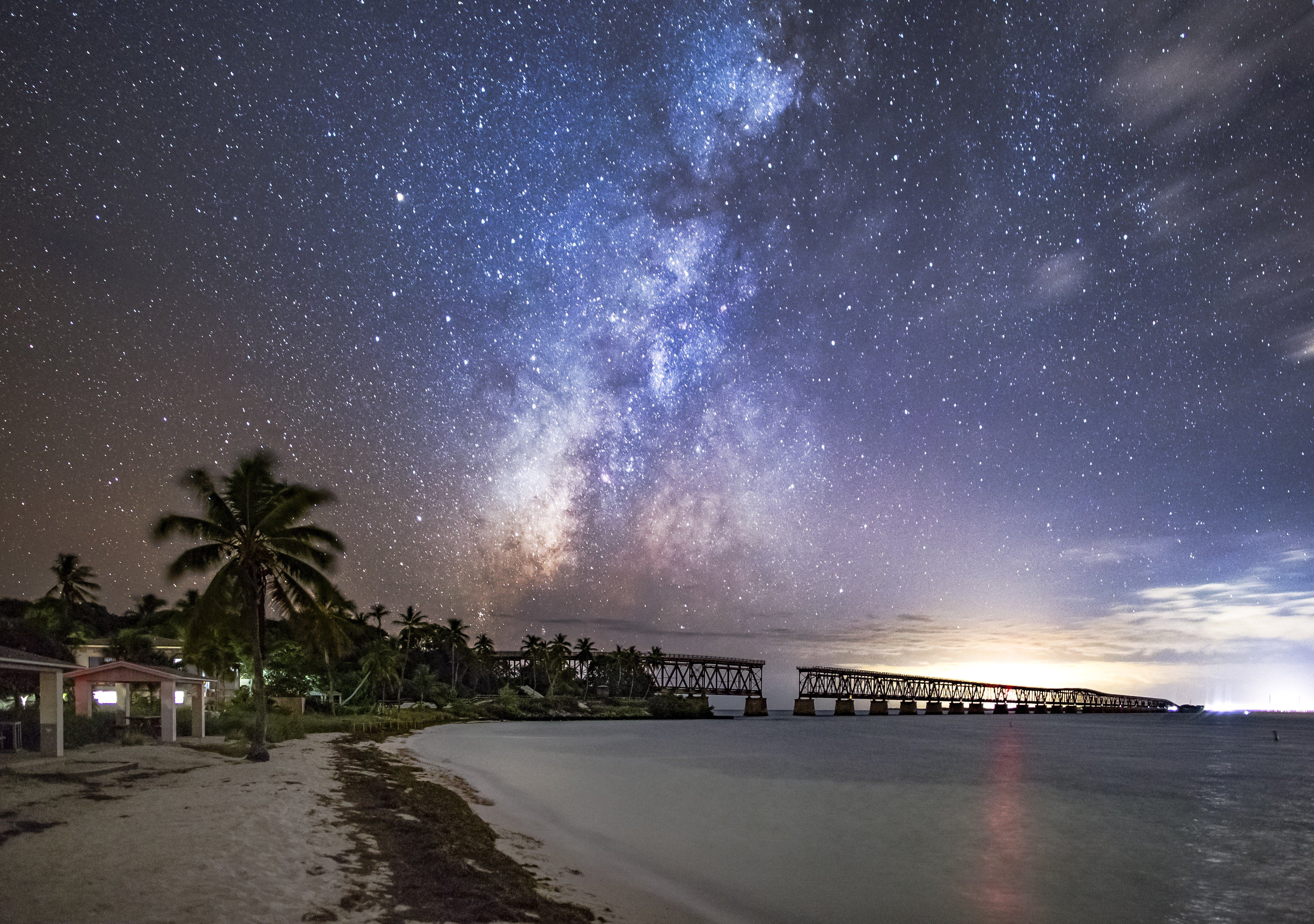 Bahia Honda State Park Milky Way as seen in October 2016